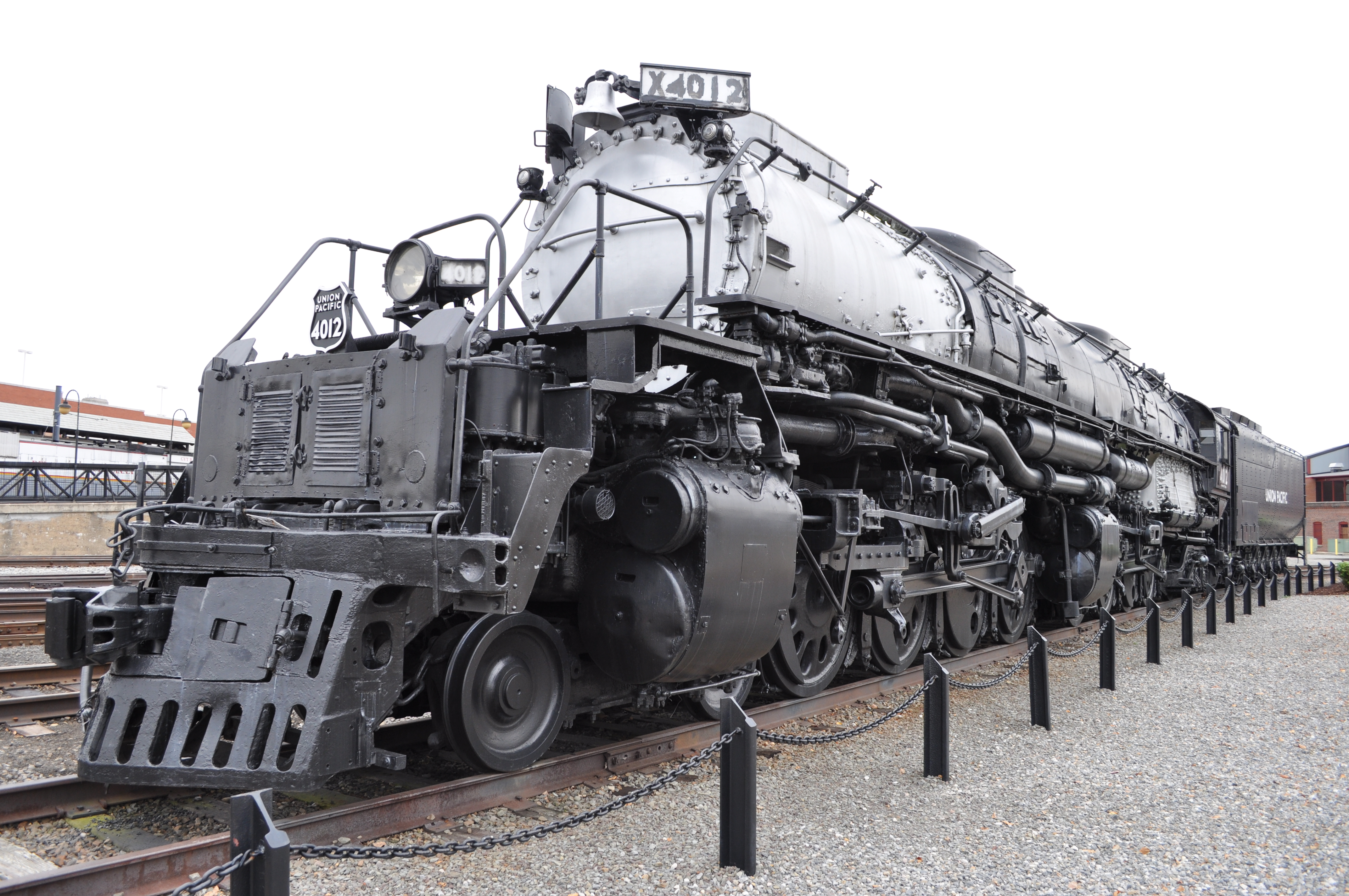 Union Pacific 4012 on static display at Steamtown National Historic Site, Scranton, Pennsylvania. Photo taken after recent repaint of the locomotive.